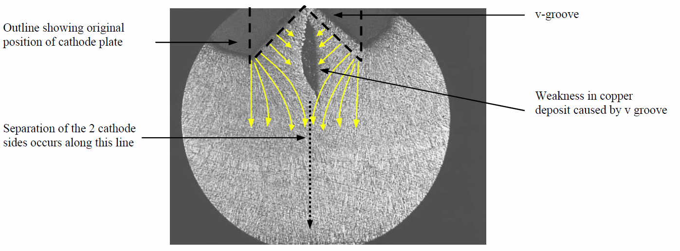 Photomicrograph of copper cathode deposits around the V-groove cut into the end of a stainless steel starter sheet. It shows the weakness in the copper induced by the groove that allows the cathode sheets to be easily split and removed.